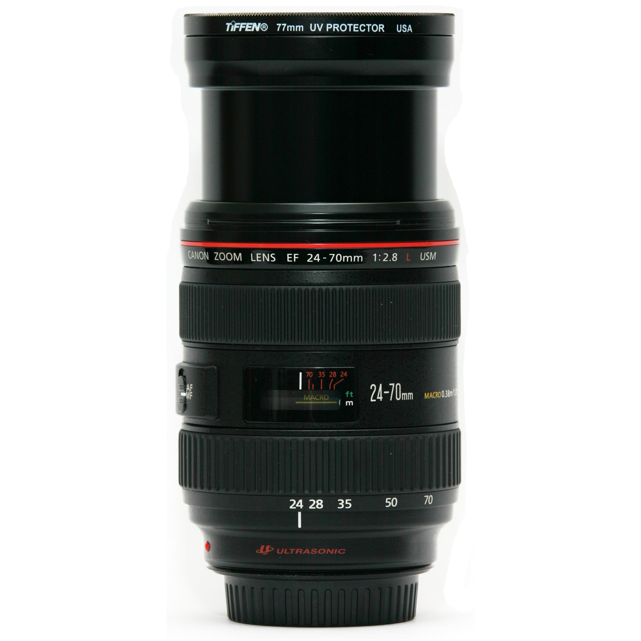 A Canon EF 24-70 mm lens from the side at 24 mm